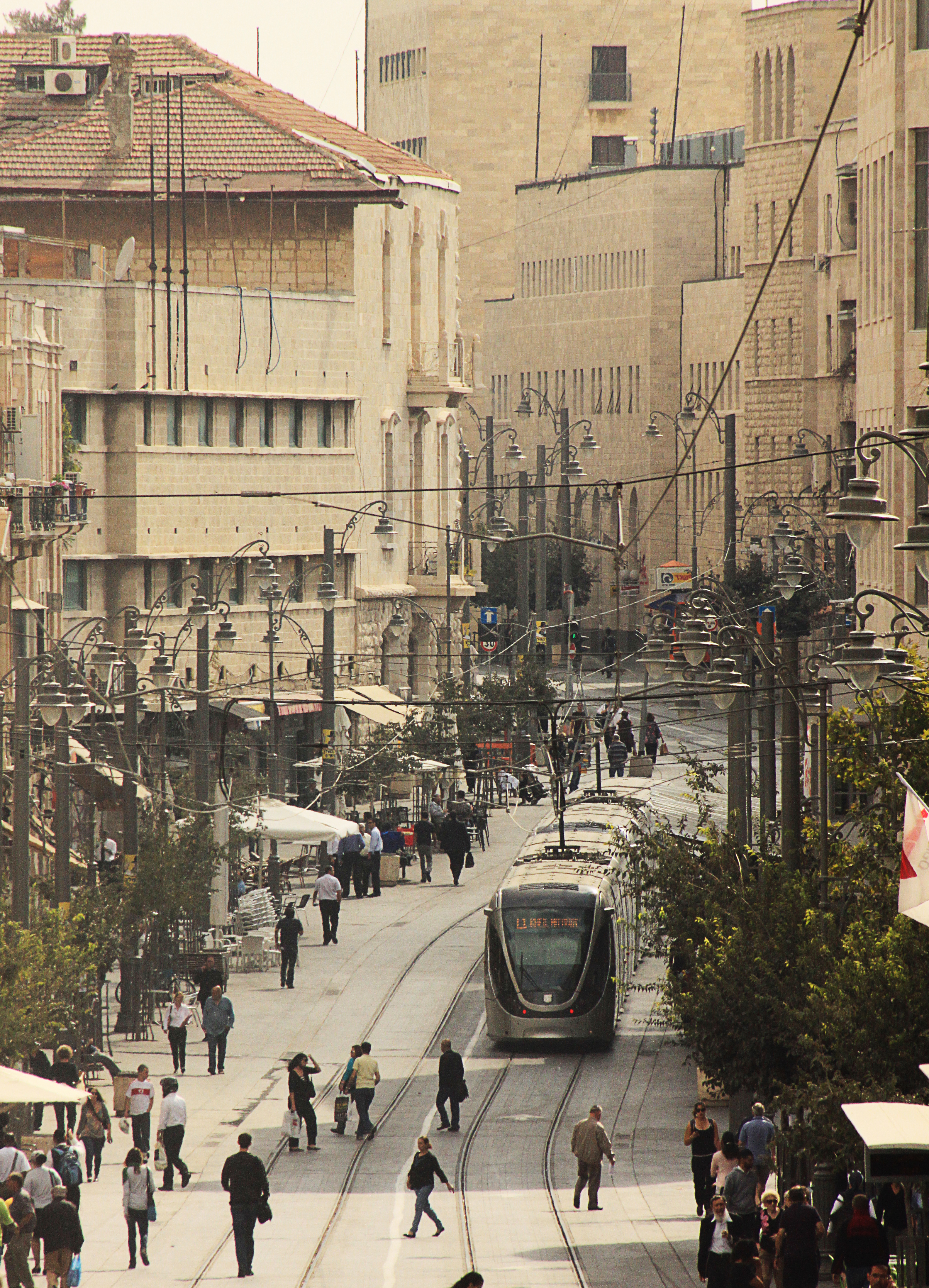 The Jerusalem Light rail on Yaffo st. - October 26, 2011 Photo has been taken from west-to-east Yaffo st.